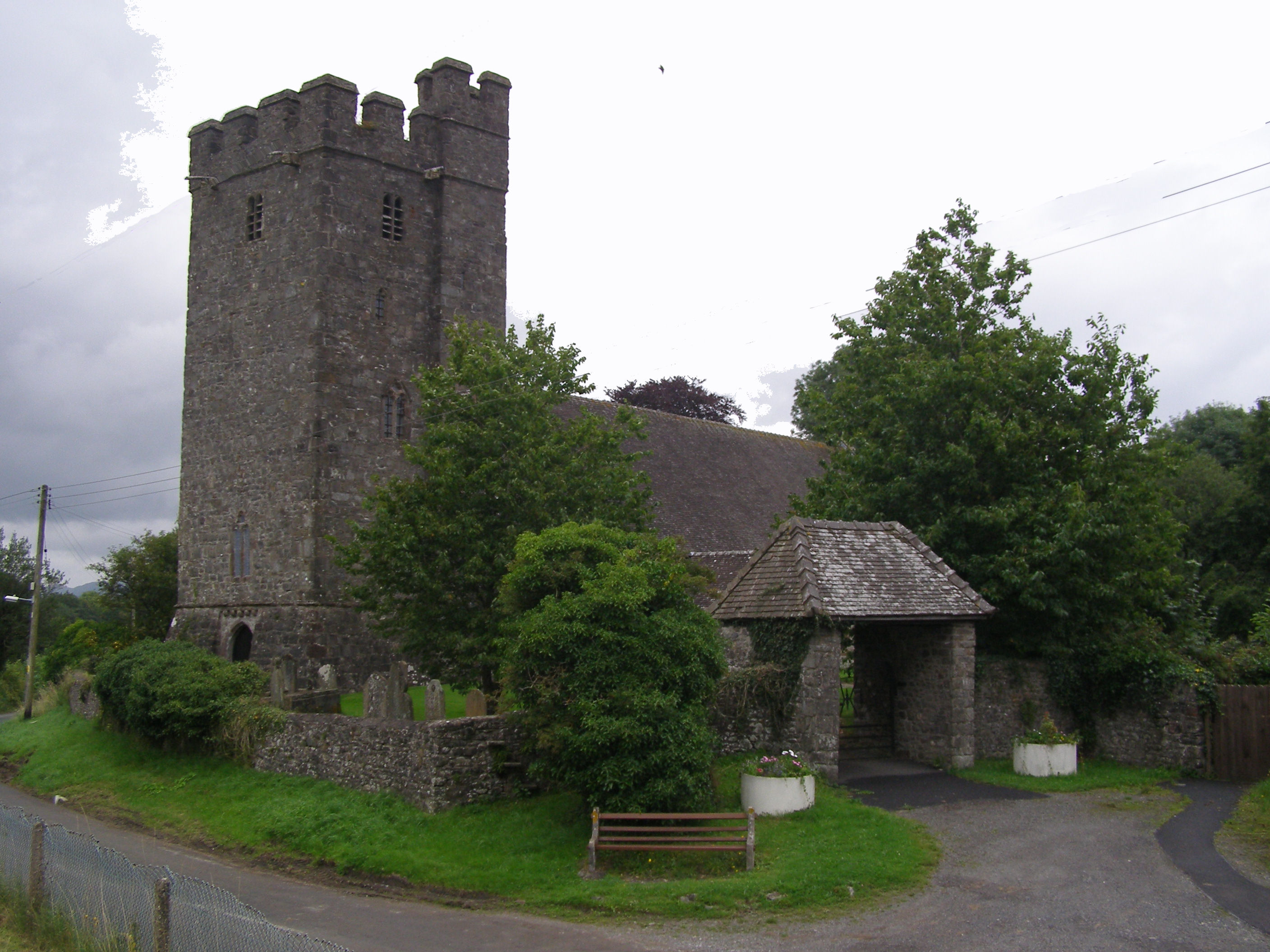 View of the Church at Llanfair-ar-y-Bryn. Nr. Llandovery, Carmarthenshire.